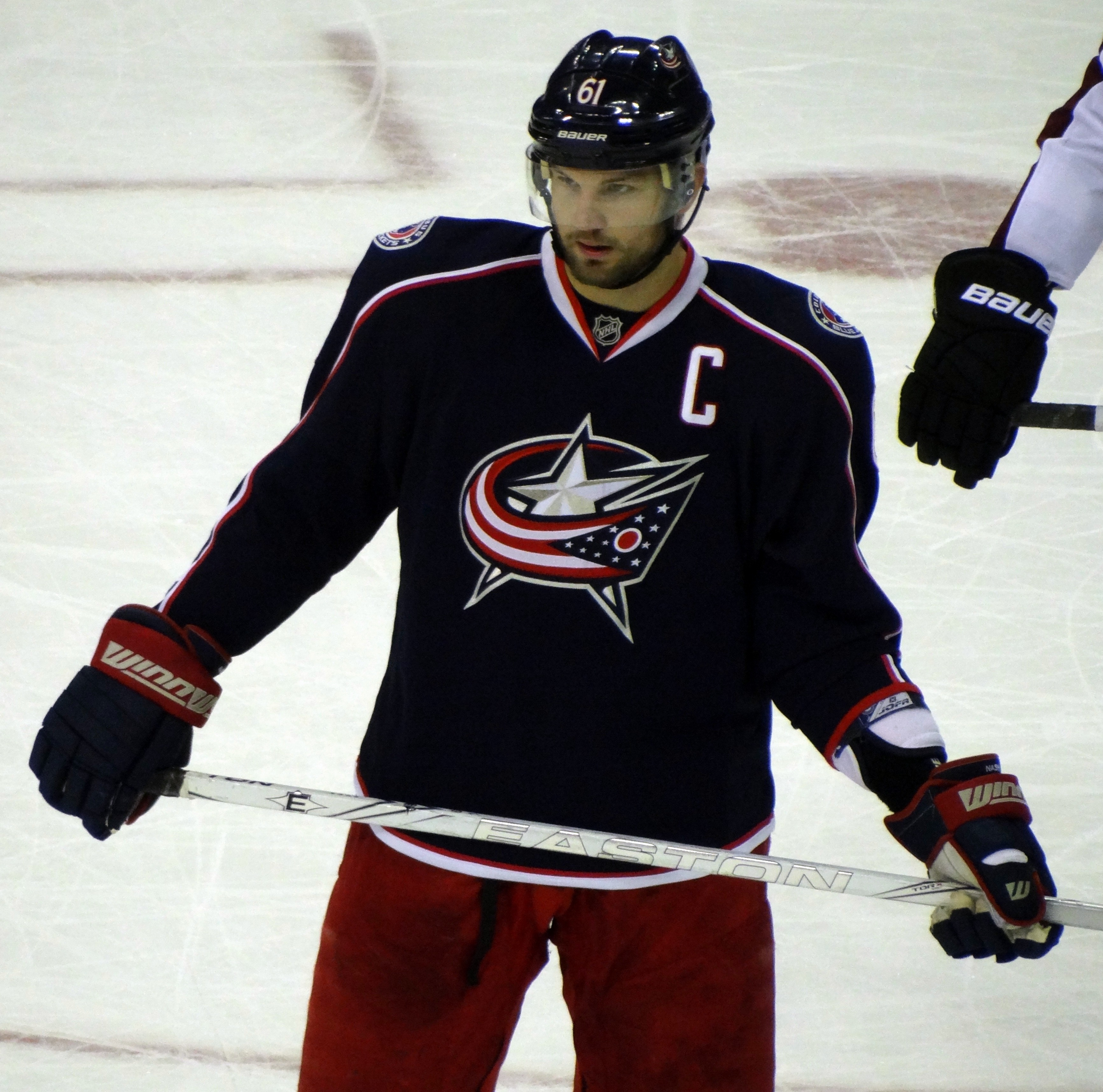 Rick Nash prior the NHL game between the Columbus Blue Jackets and the Colorado Avalanche.